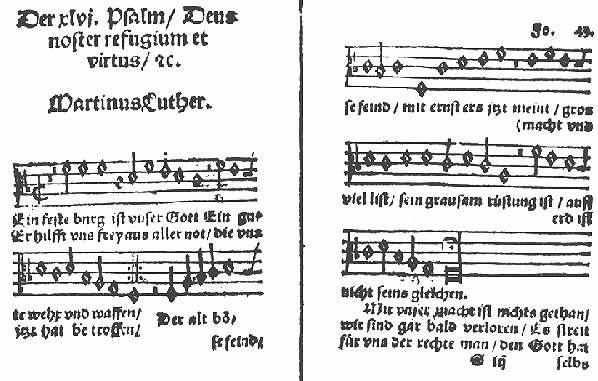 Music sheet of Ein feste Burg ist unser Gott, hymn by Martin Luther.